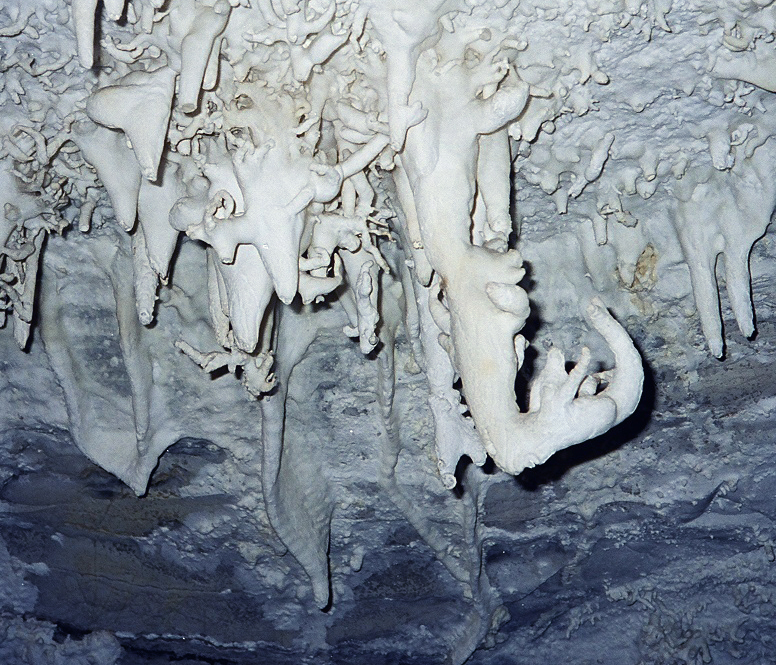 Helictites in the ceiling of Gruta da Torrinha, Chapada Diamantina, Bahia, Brasil. Helictites na Gruta da Torrinha, Chapada Diamantina, Bahia Brasil.